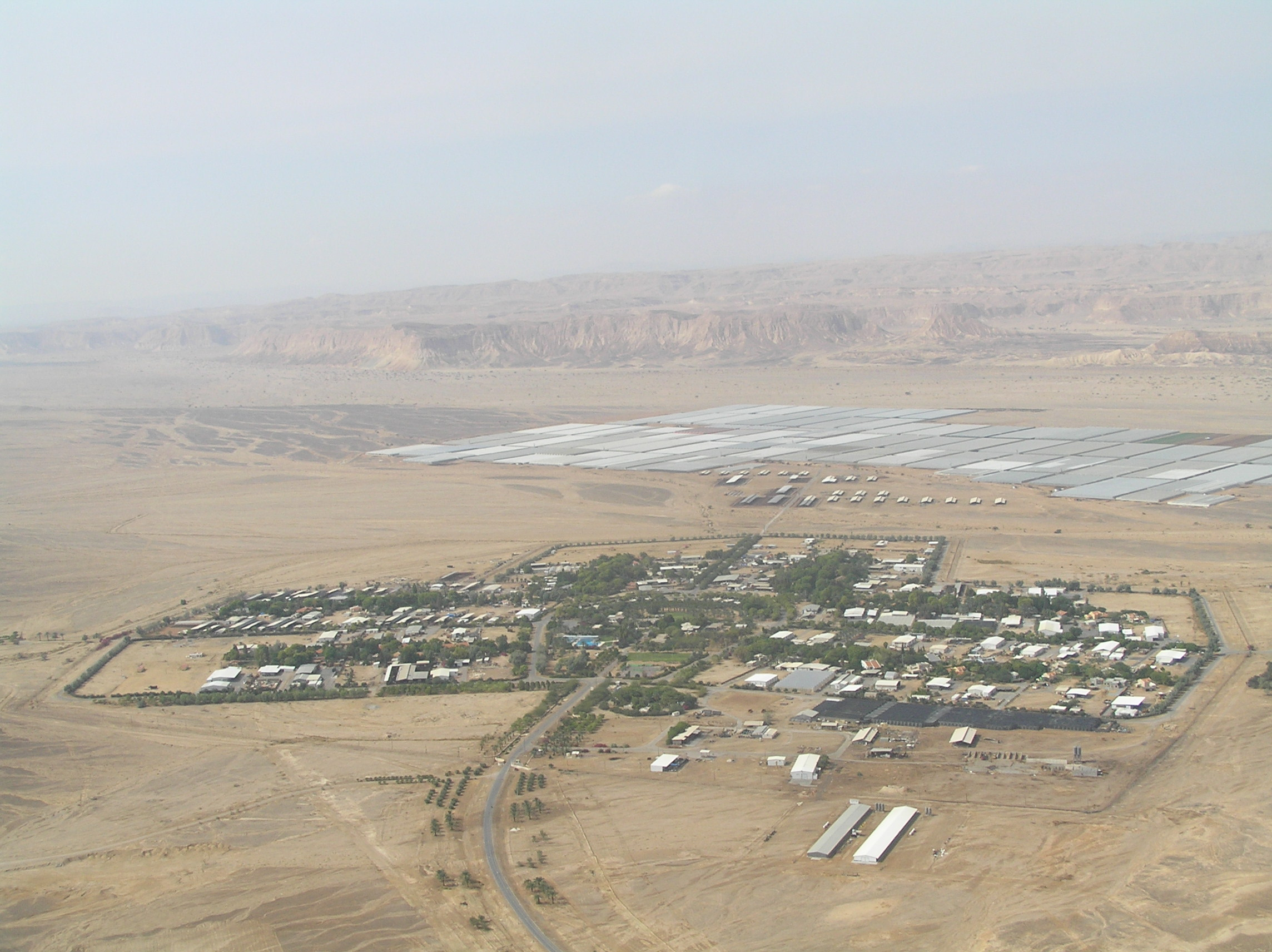 Aireial photo of Moshav Paran, Israel.